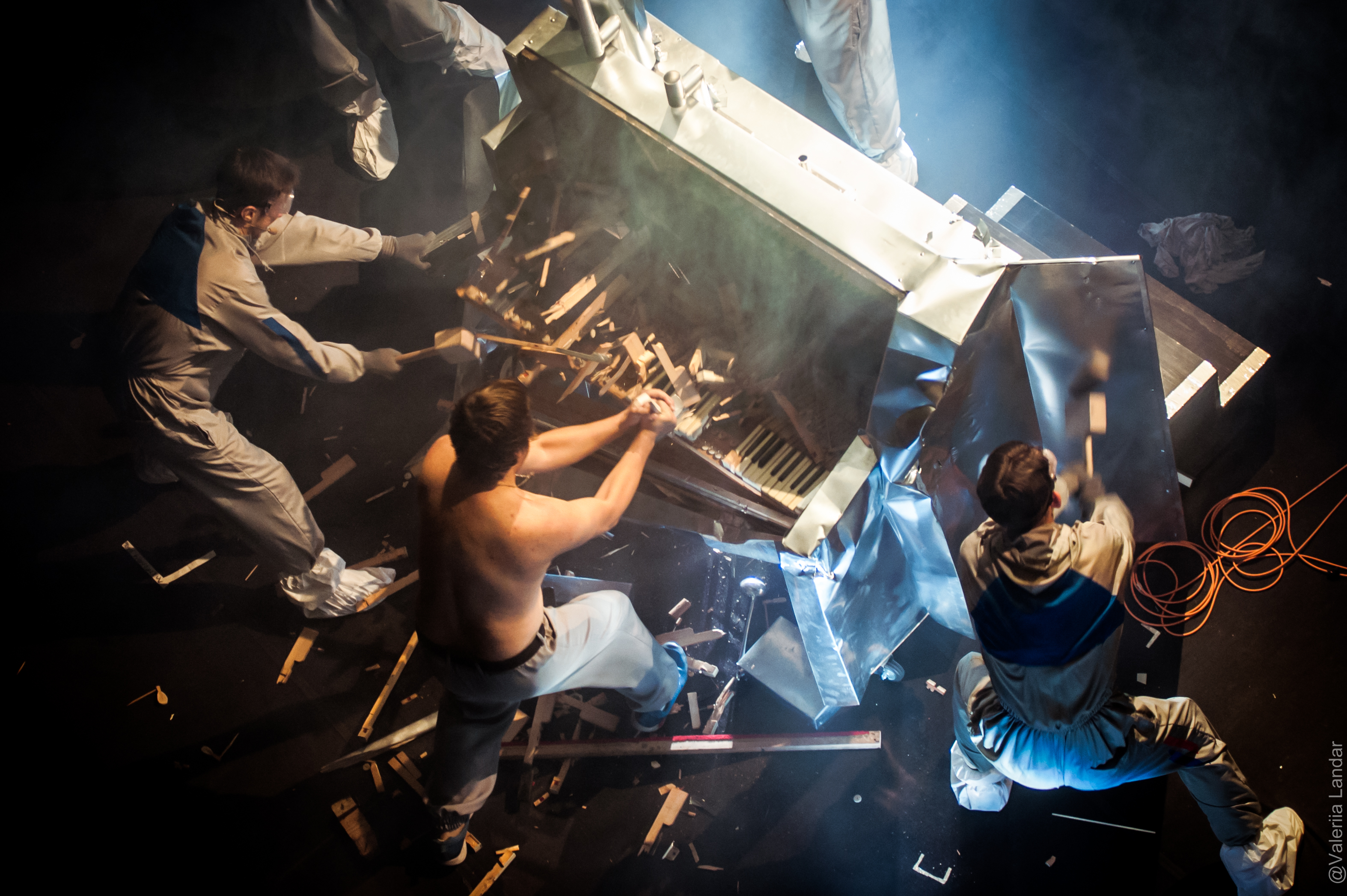 Opera-dystopia GAZ, II ACT.Manifesto, Photo Valeriia Landar